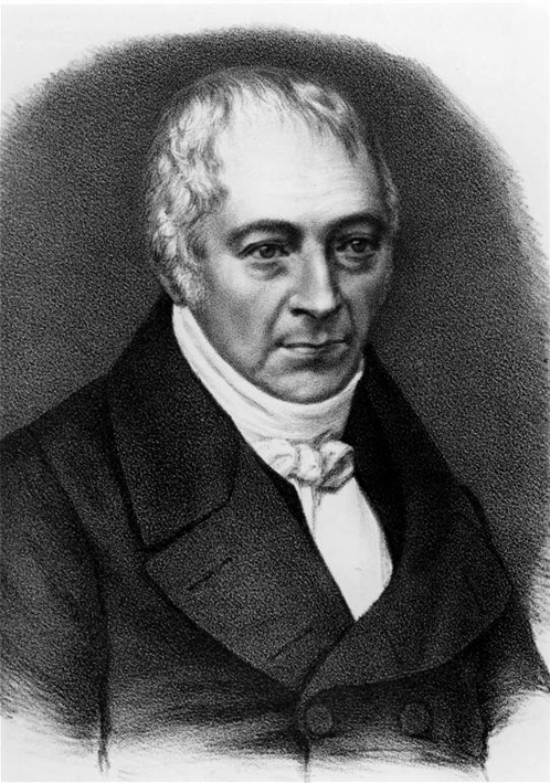 Portrait of the Senator of Bremen, Germany, Dr. jur. Hieronymus Klugkist (1778–1851), founder of the Kunstverein in Bremen (“Art Association of Bremen”) – Lithograph by Friedrich Adolf Dreyer (1780–1850) – Kunsthalle Bremen, Kupferstichkabinett, Der Kunstverein in Bremen.